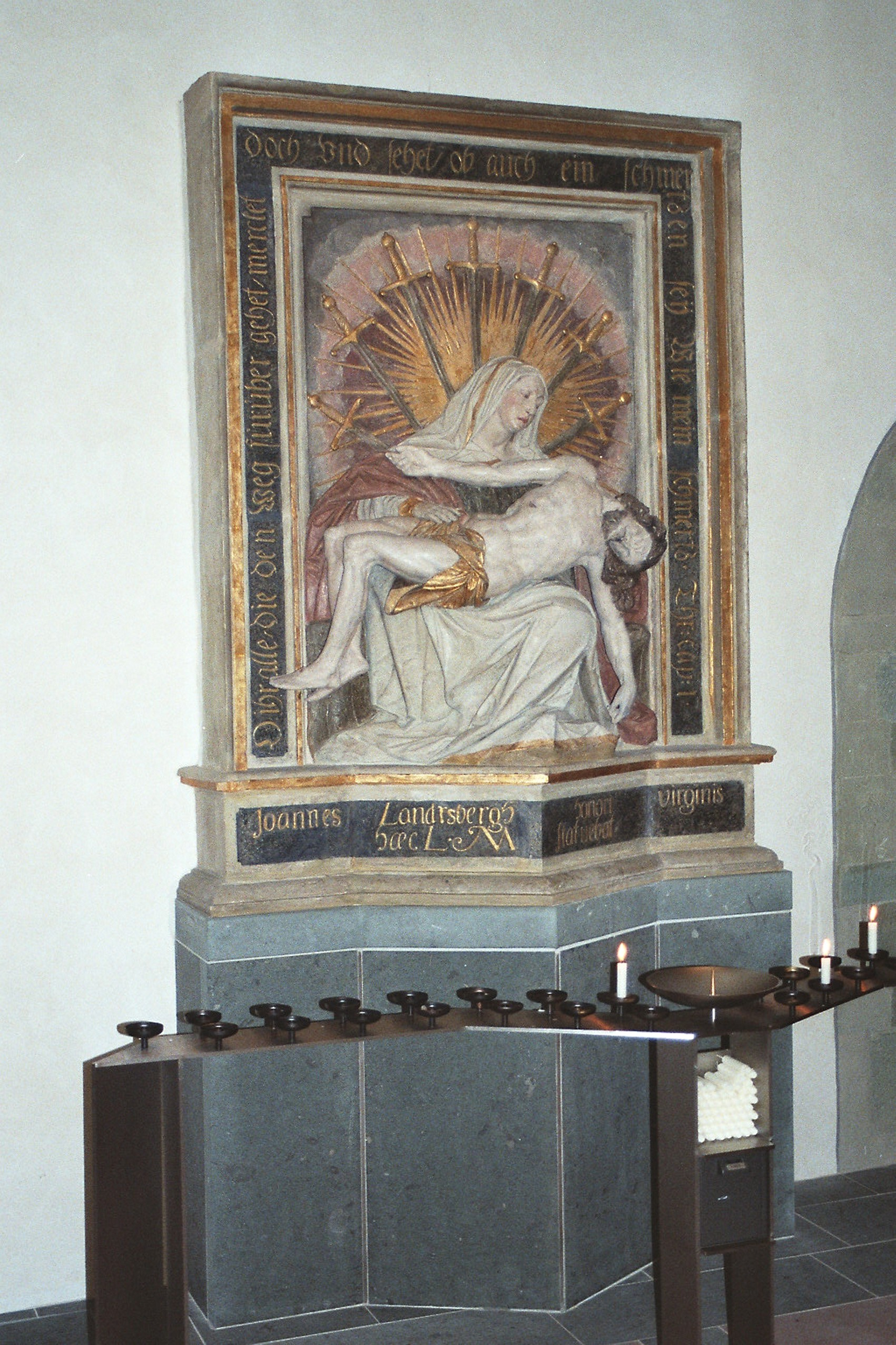 Erwitte, Saint Lawrence church